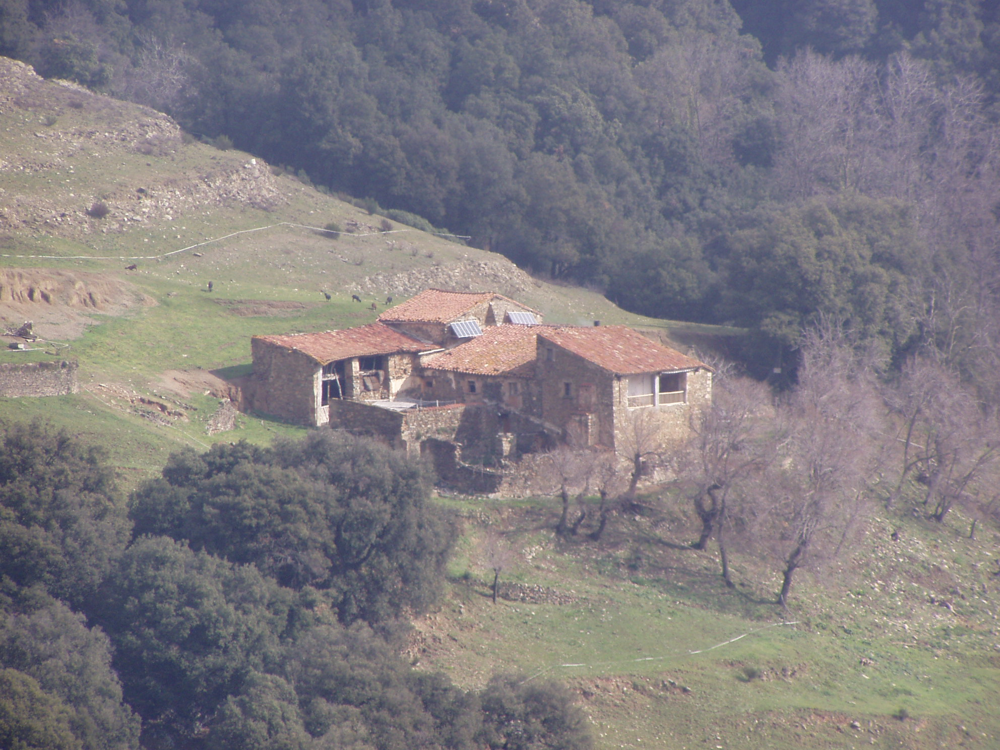 El Cortès (Sant Pere de Vilamajor)